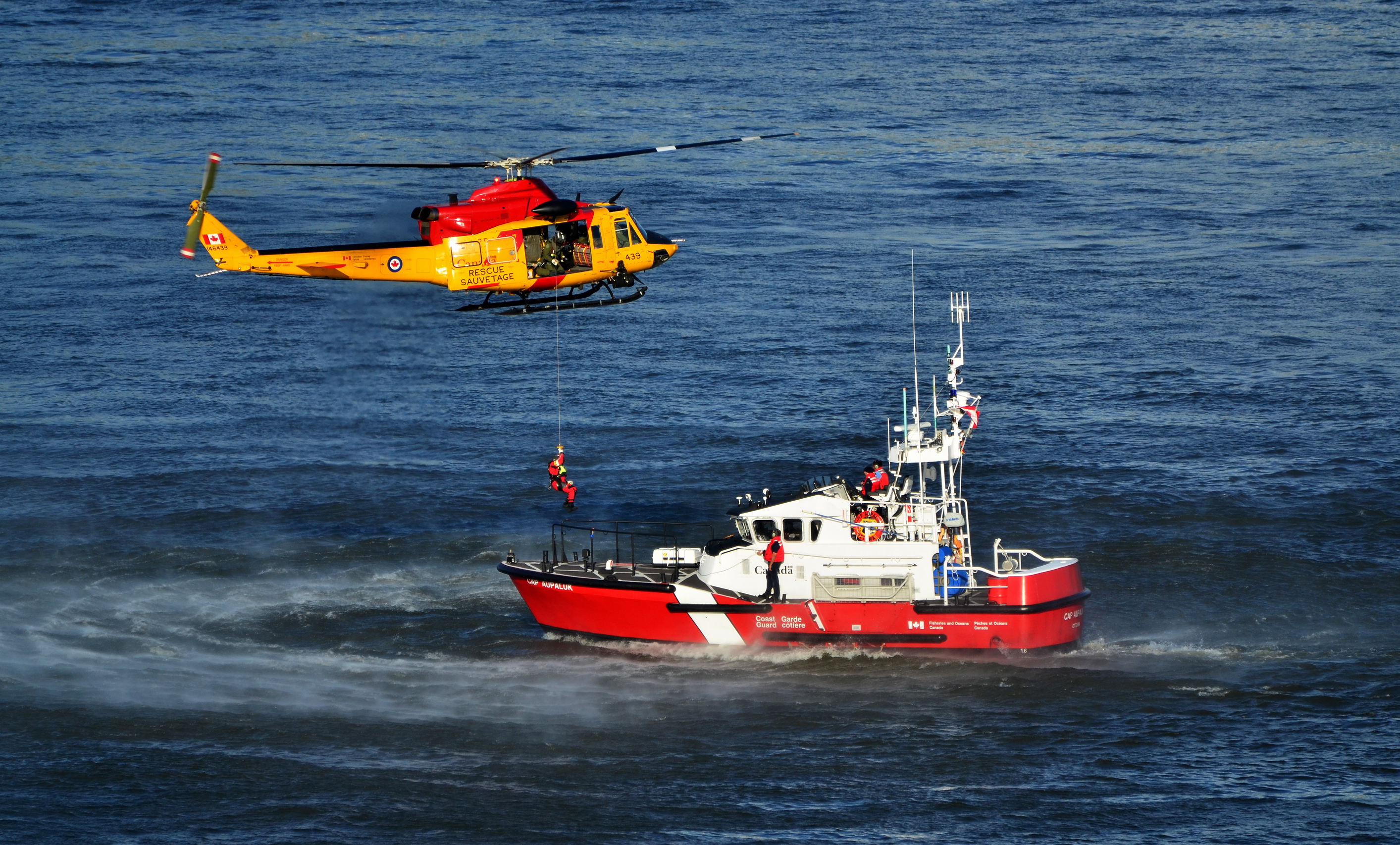 A rescue exercise by the Royal Canadian Air Force and the Canadian Coast Guard in 2012